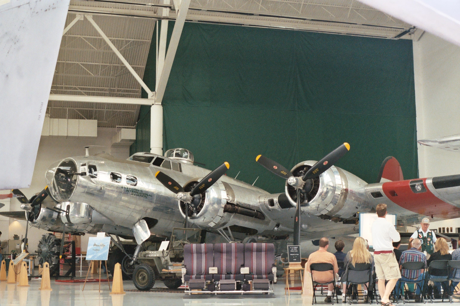 Photograph of a B-17 Flying Fortress I took at the Evergreen Aviation Museum in McMinnville, Oregon. B-17G "Shady Lady" 44-83785 (previously fake reg 44-85531), N809Z, N207EV